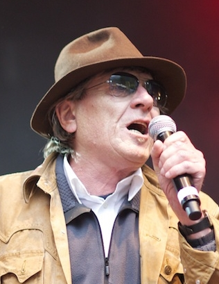 Polo Hofer at the Open Air Hoch-Ybrig, 18 June 2011.